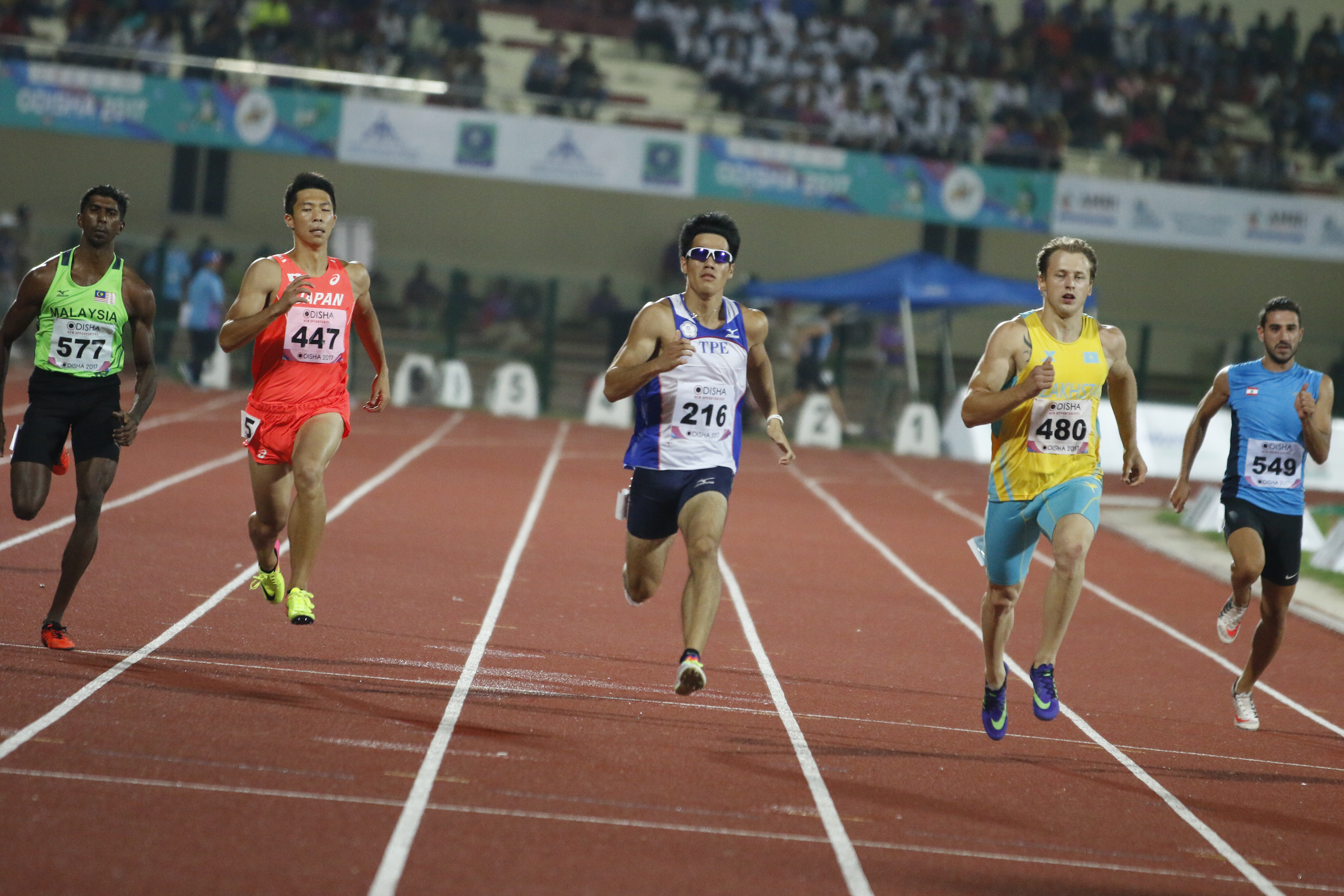 Athletes during 22nd Asian Athletics Championships in Bhubaneswar.